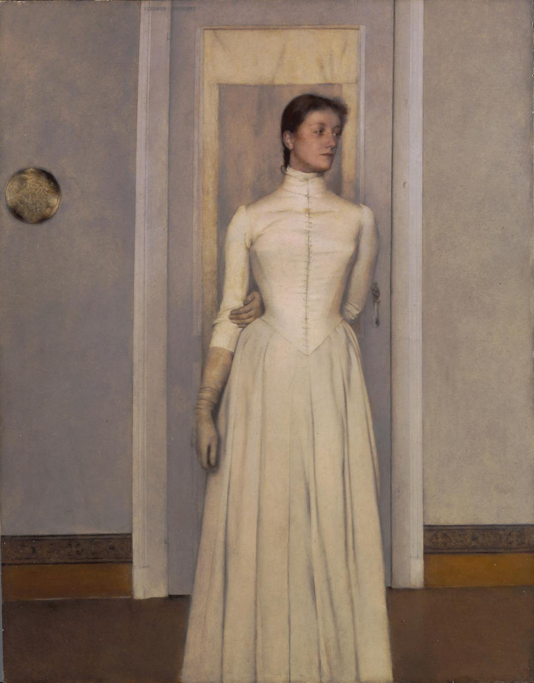 Portrait of the artist's sister